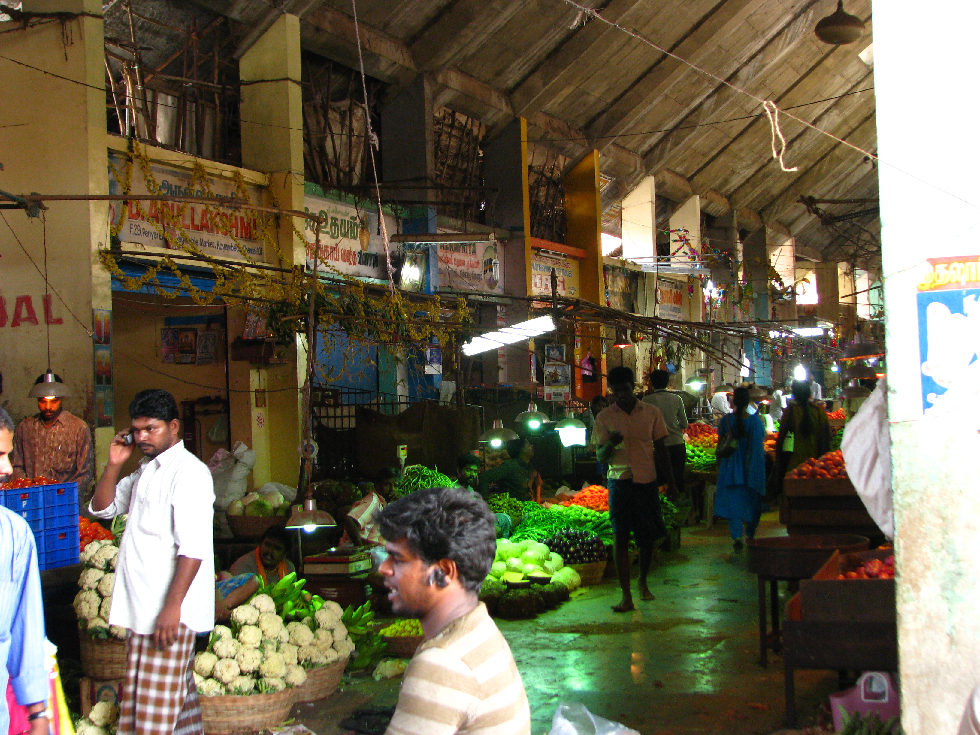 The vast, but dimly-lit main corridors of the vegetable building, dozens of different kinds of produce up for sale row by row.